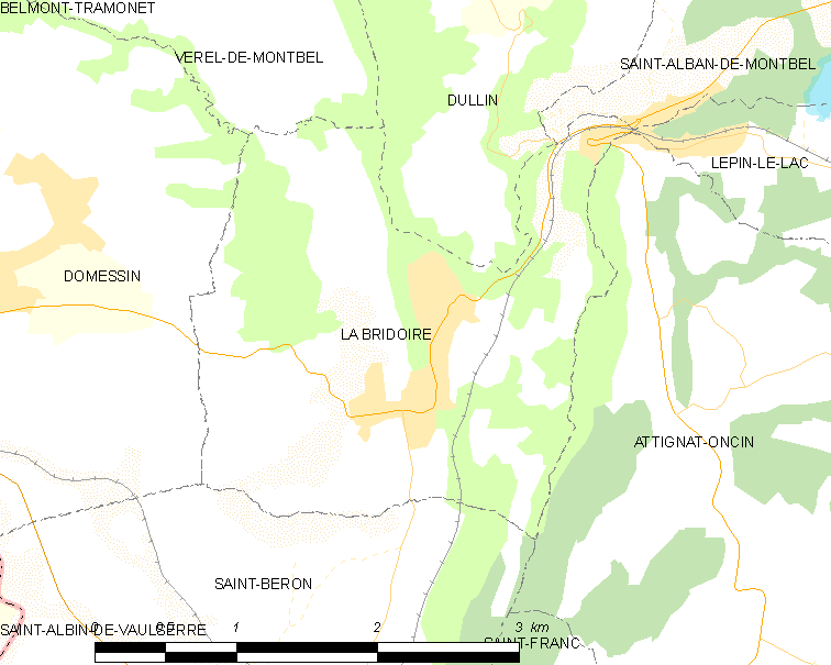 Map of French municipality